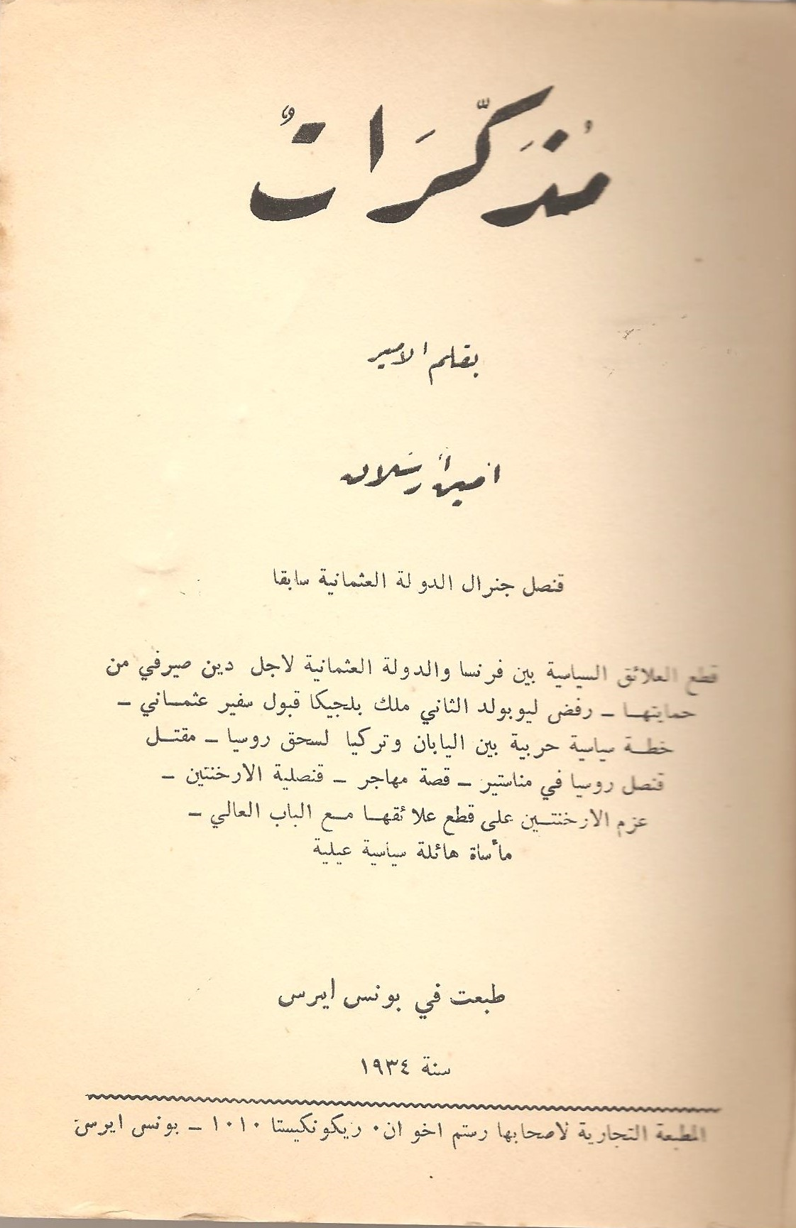 "Memoirs of the Emir Emin Arslan", title page (Buenos Aires, 1934)